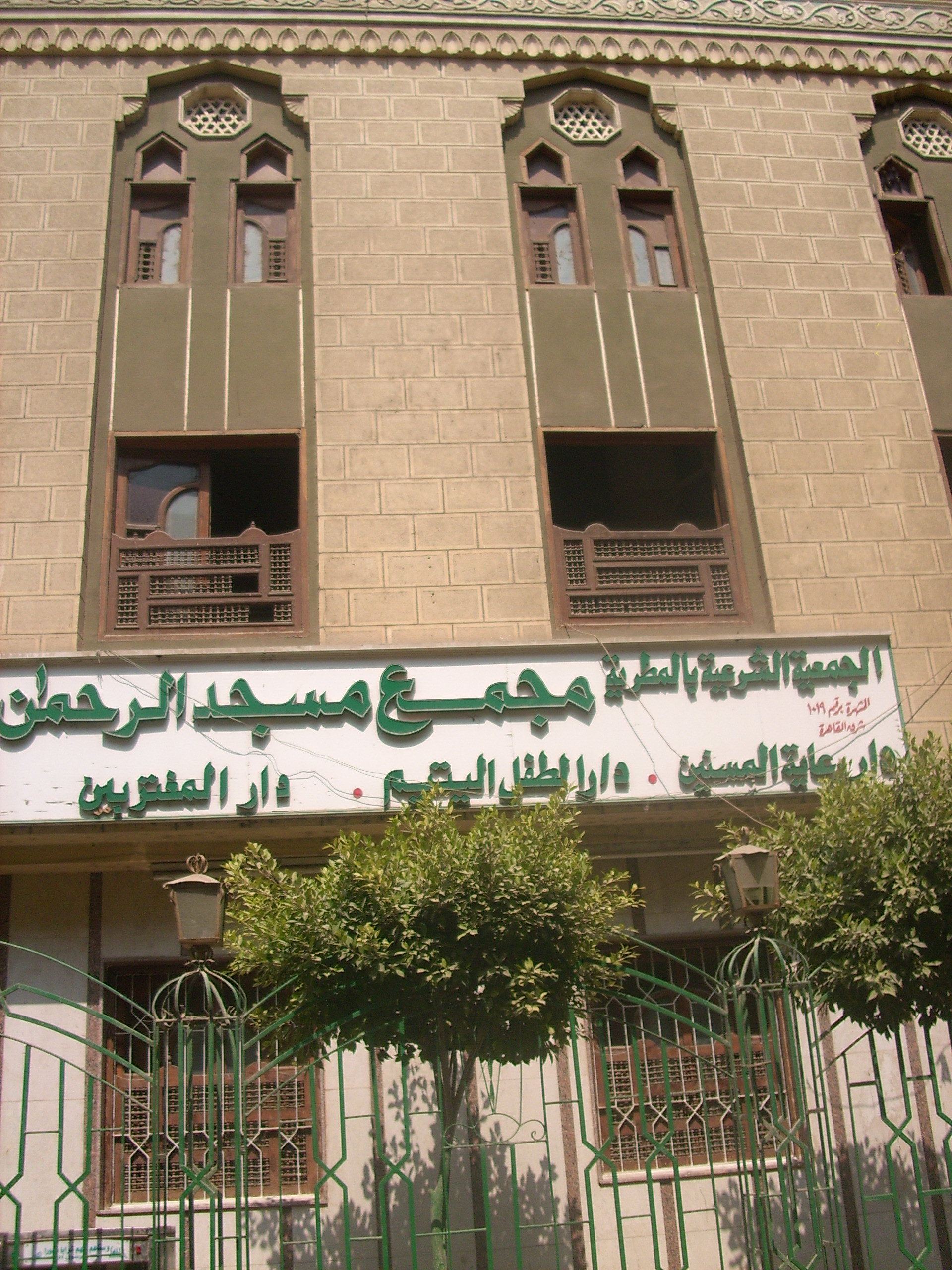 Ebad Arrahman NGO, Mataryia Cairo